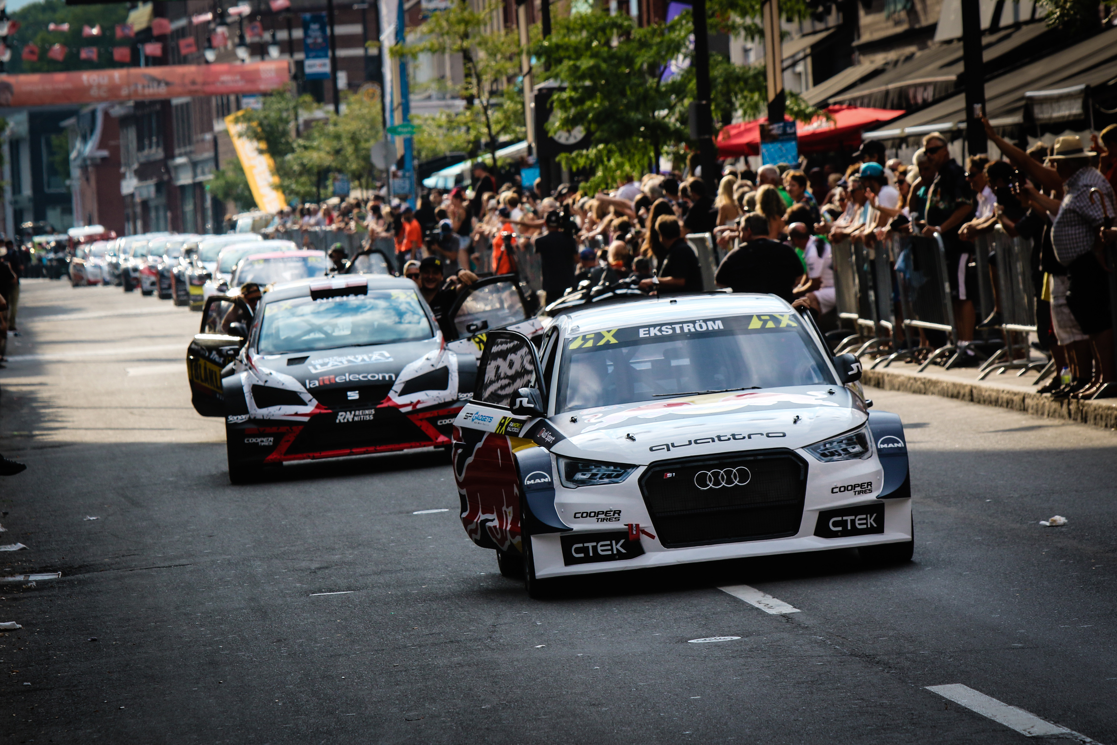 2016 FIA World Rallycross Championship / Round 07, Trois Rivieres, Canada / August 05-07 2016 // Worldwide Copyright: Colin McMaster/EKS/McKlein